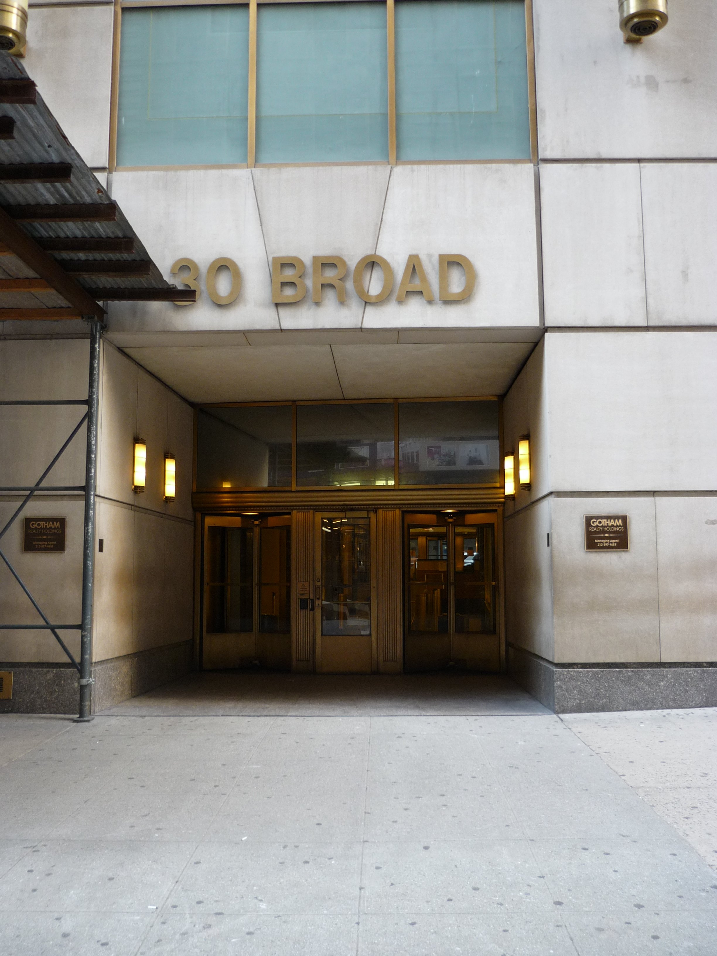 This photo is of Wikis Take Manhattan goal code H10, Continental Bank Building.